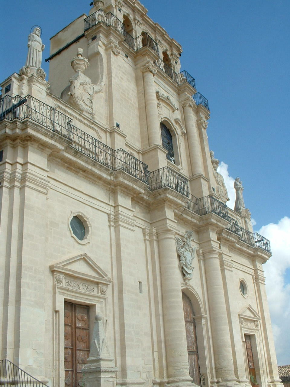 Giarratana (RG), Church of S. Antonio Abate